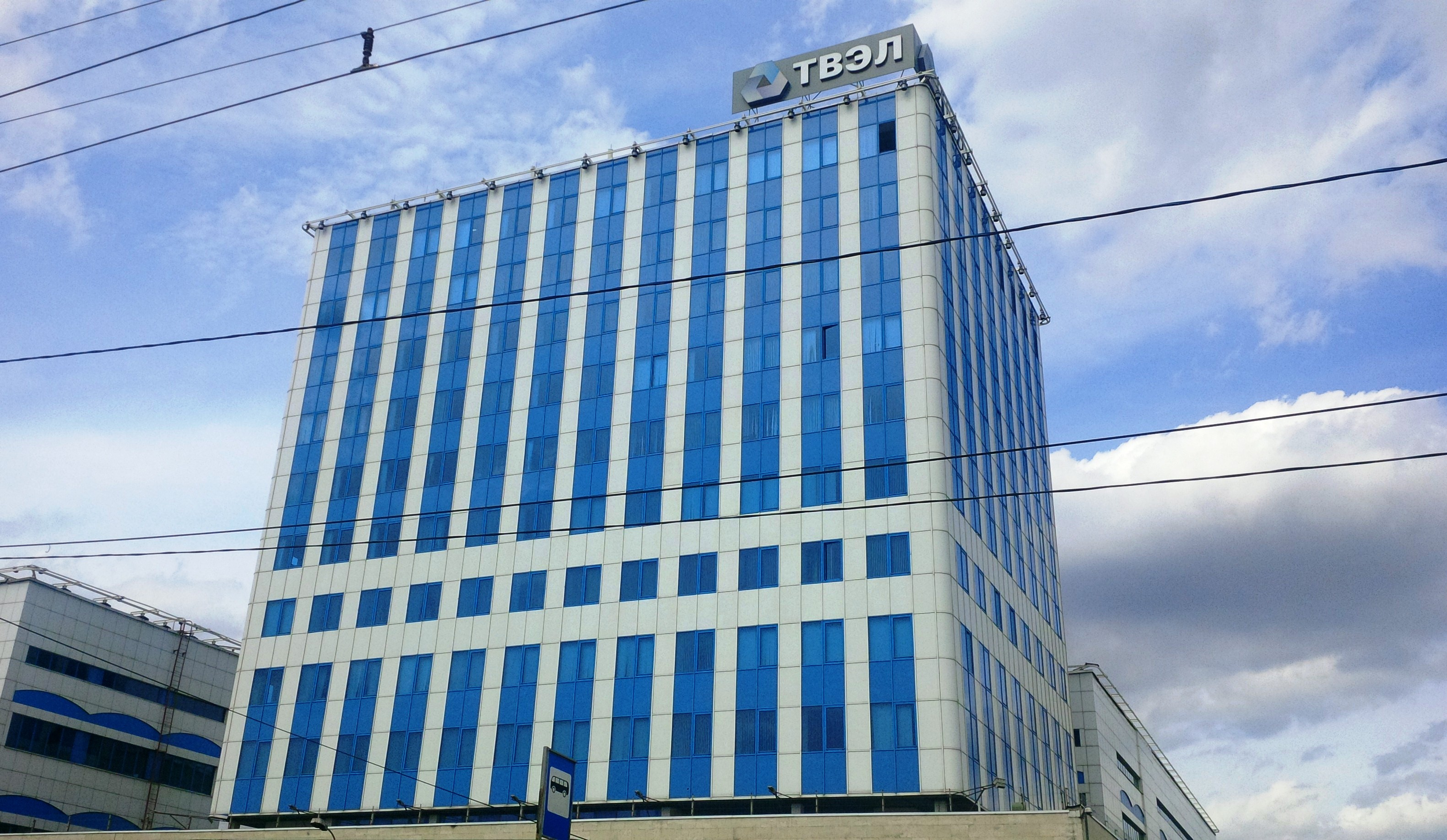 TVEL Office Building Moscow